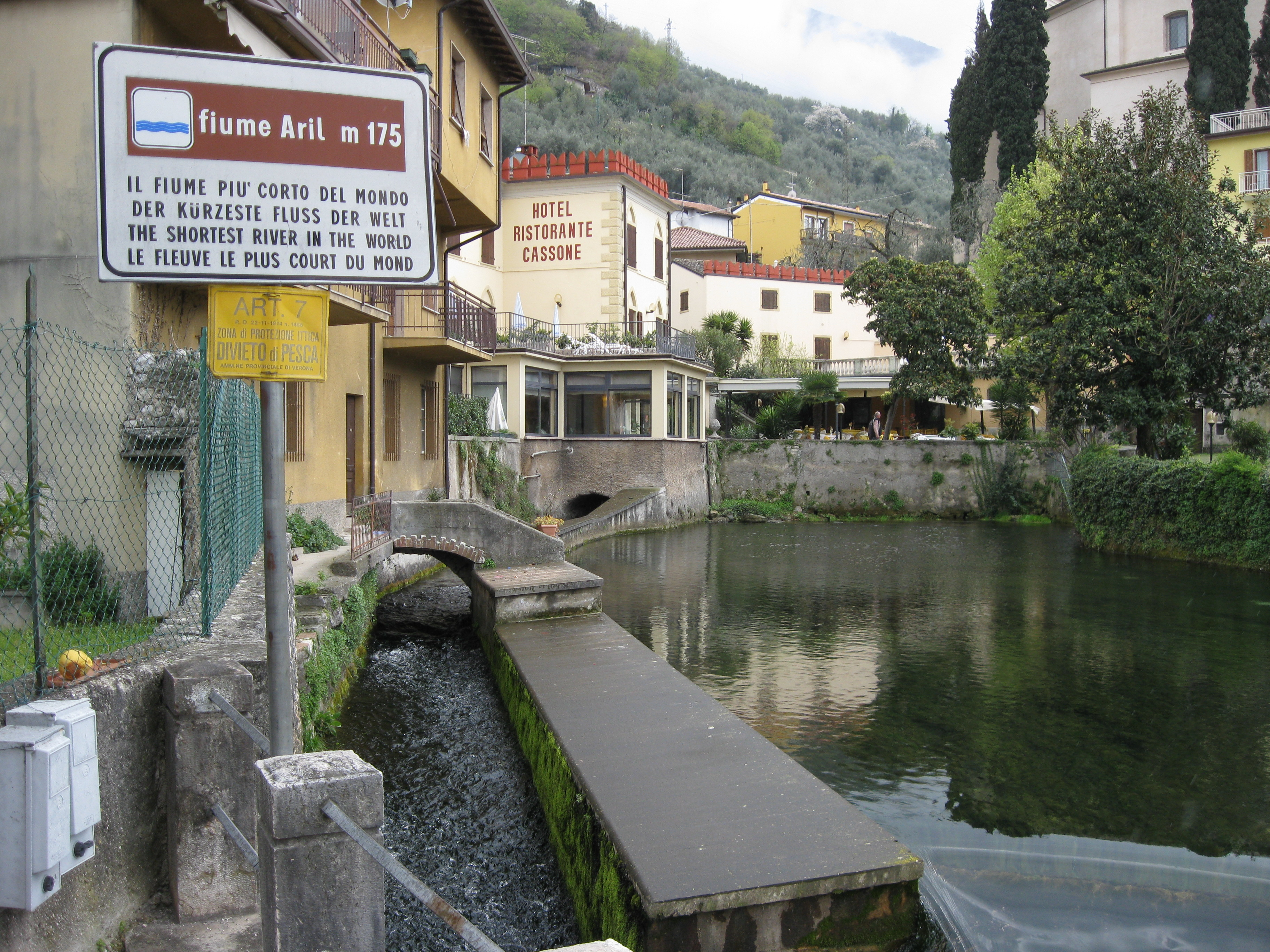 The river Aril in Italy